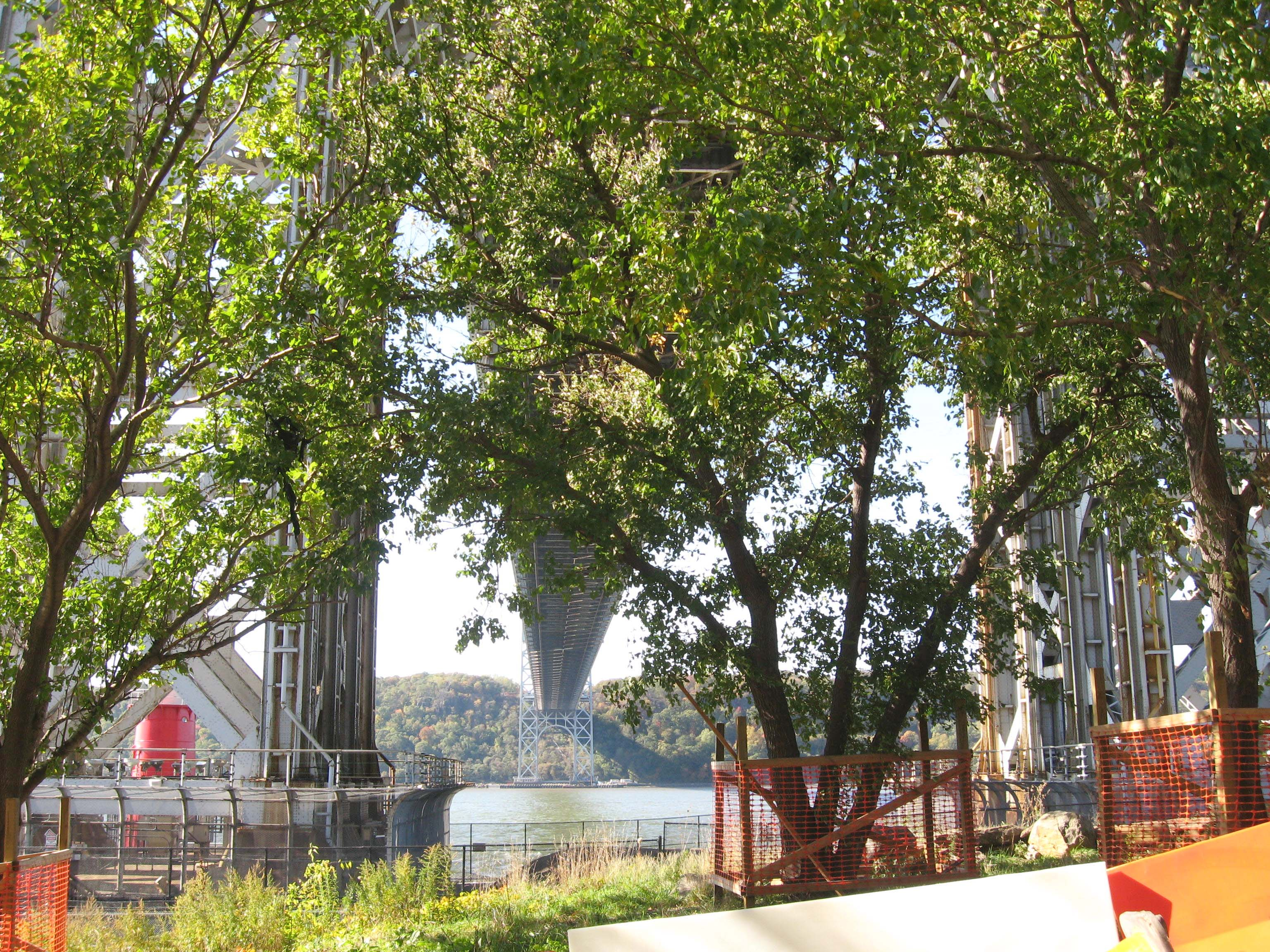 Looking west under George Washington Bridge from Manhattan Waterfront Greenway in For Washington Park, towards Fort Lee on a sunny midday.